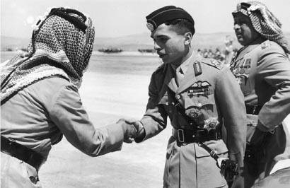 Hussein, Commander-in-Chief of the Armed Forces, greets one of his soldiers